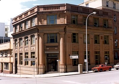 Manufacturers House